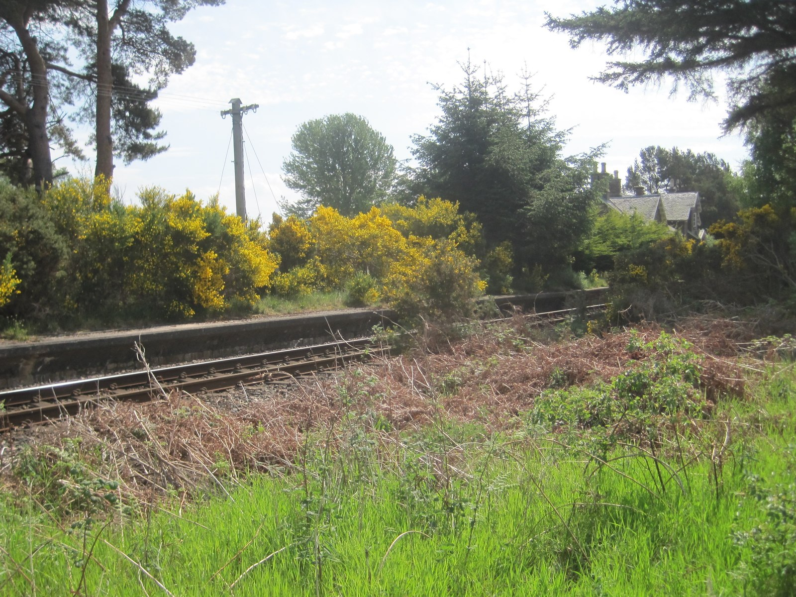 Orbliston railway station (site), MorayOpened as 'Fochabers High' in 1858 on the Highland Railway's line from Inverness to Keith, this station's name changed to 'Orbliston Junction' in 1893 when the Fochabers branch opened, then to 'Orbliston' in 1960. It closed in 1964. The line was later singled. View south east towards Orton and Keith. It became a private residence.